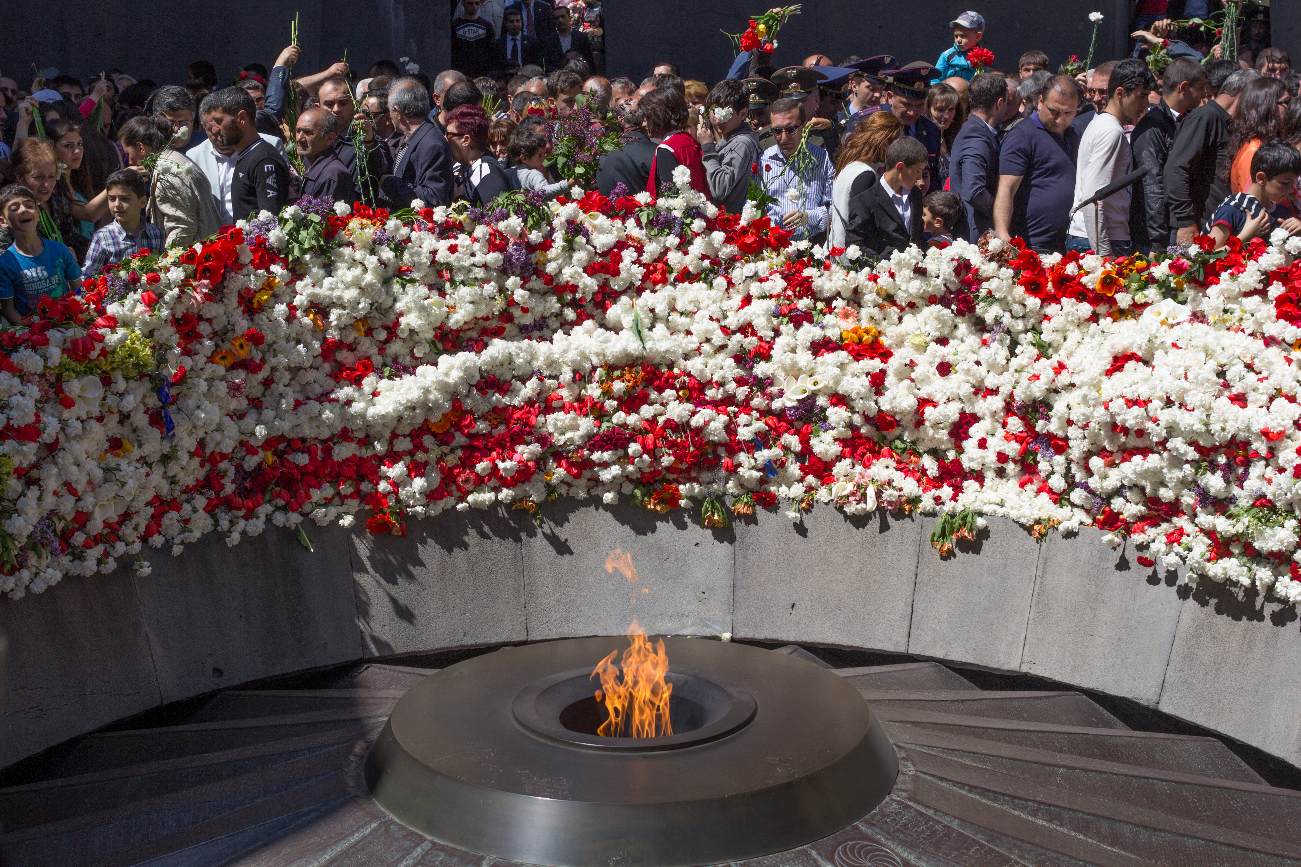 The eternal flame at the Tsitsernakaberd Memorial in Yerevan, Armenia, on Armenian Genocide Remembrance Day 2014.